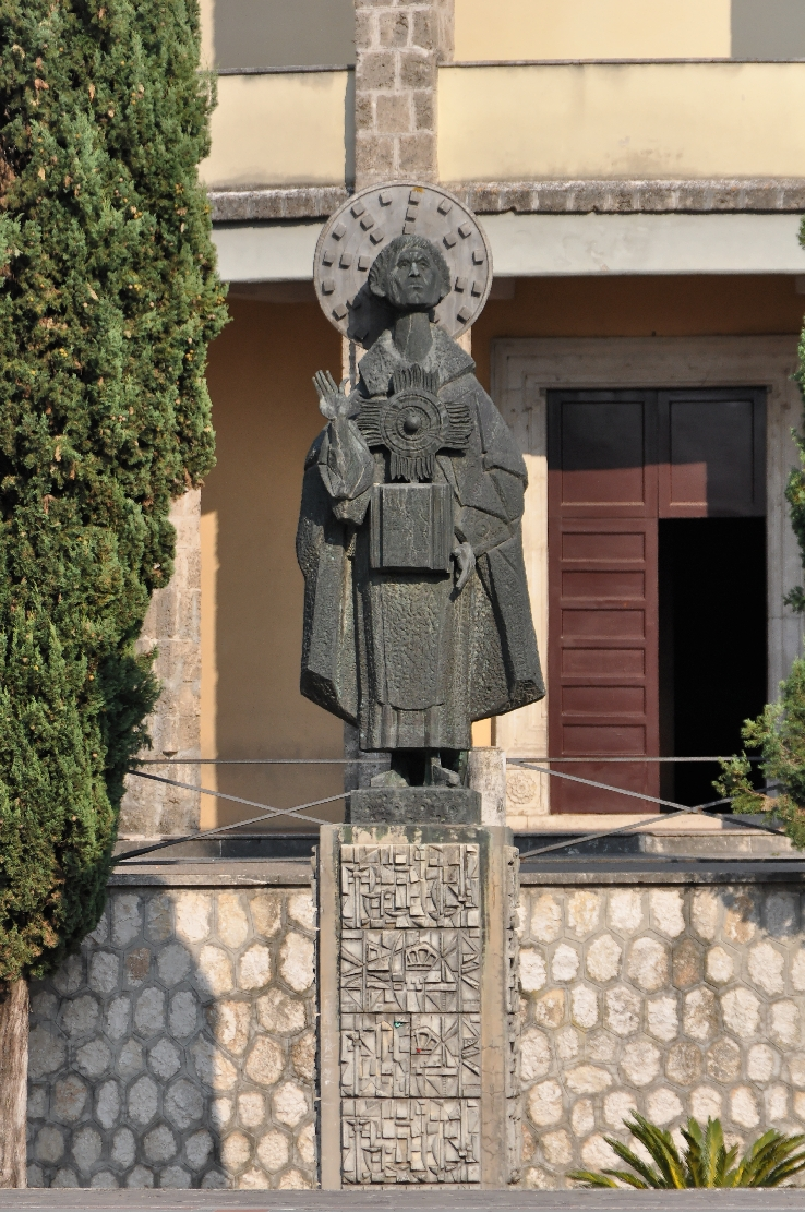 Aquino (Frosinone), concathedral San Tommaso, statue of Thomas Aquinas 2012 Dieses Foto entstand in Zusammenarbeit mit Stadtbesichtigungen.de Die Seiten Stadtbesichtigungen.de, der dazugehörige Reise Blog sowie die Facebookseite: Stadtbesichtigungen Rom dürfen dieses Bild für Ihre Veröffentlichungen ohne den Hinweis auf Wikipedia, Commons bzw der Lizenz verwenden. Die Verantwortlichen habe von mir (Ra Boe) die Originaldaten zur freien Verfügung übermittelt bekommen. Foro Appio Mansio Hotel